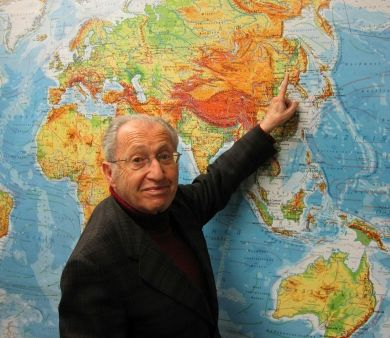 Hellmut Stern during a 2011 lecture at the Sankt-Josef-Gymnasium Biesdorf / Eifel